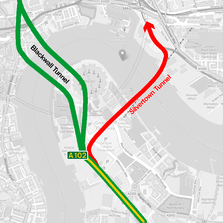 Map of the planned Silvertown Tunnel in London, UK